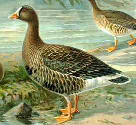 Anser erythropus